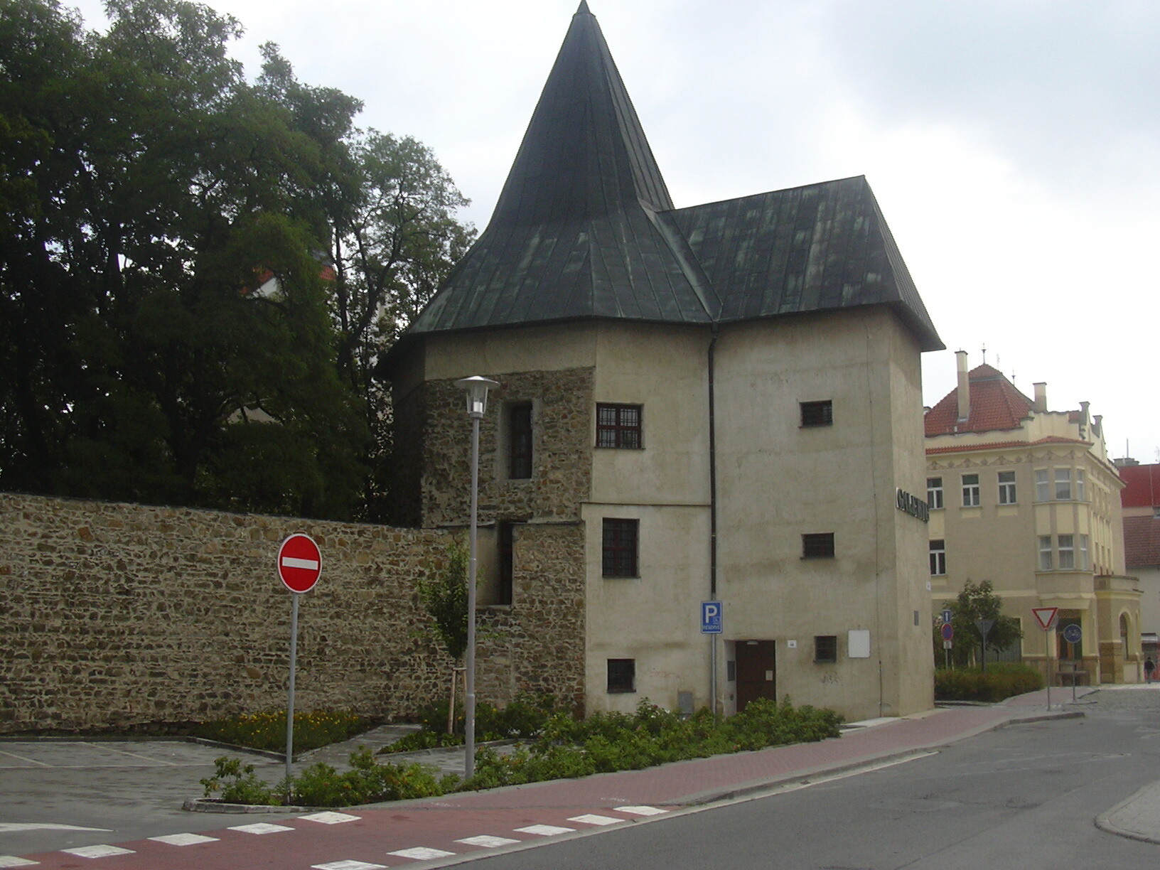 Prostějov, Czech Republic